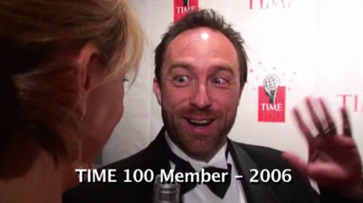 Time 100 2006 gala, Jimmy Wales speaks to Amanda Cogdon.